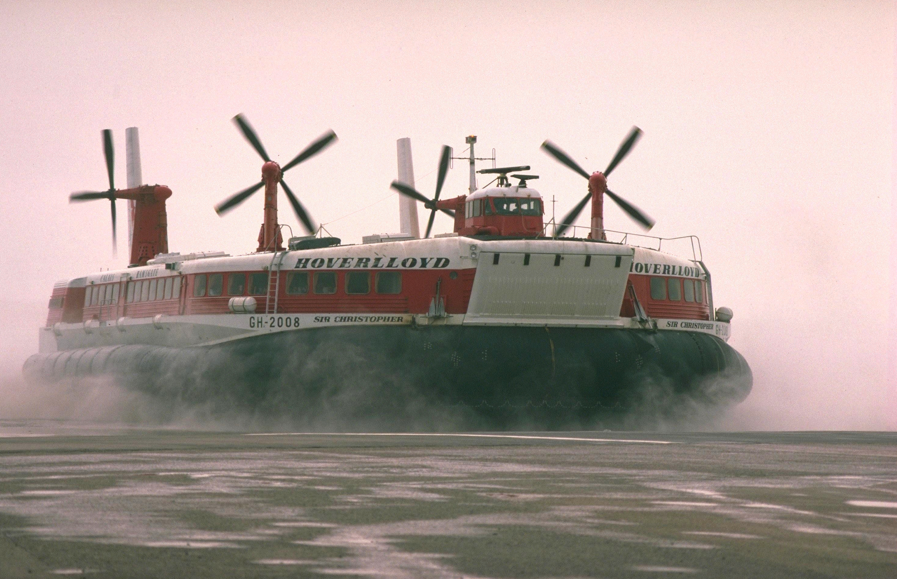 Saunders Roe Nautical 4 Hovercraft "Sir Christopher" landing in Calais/ France